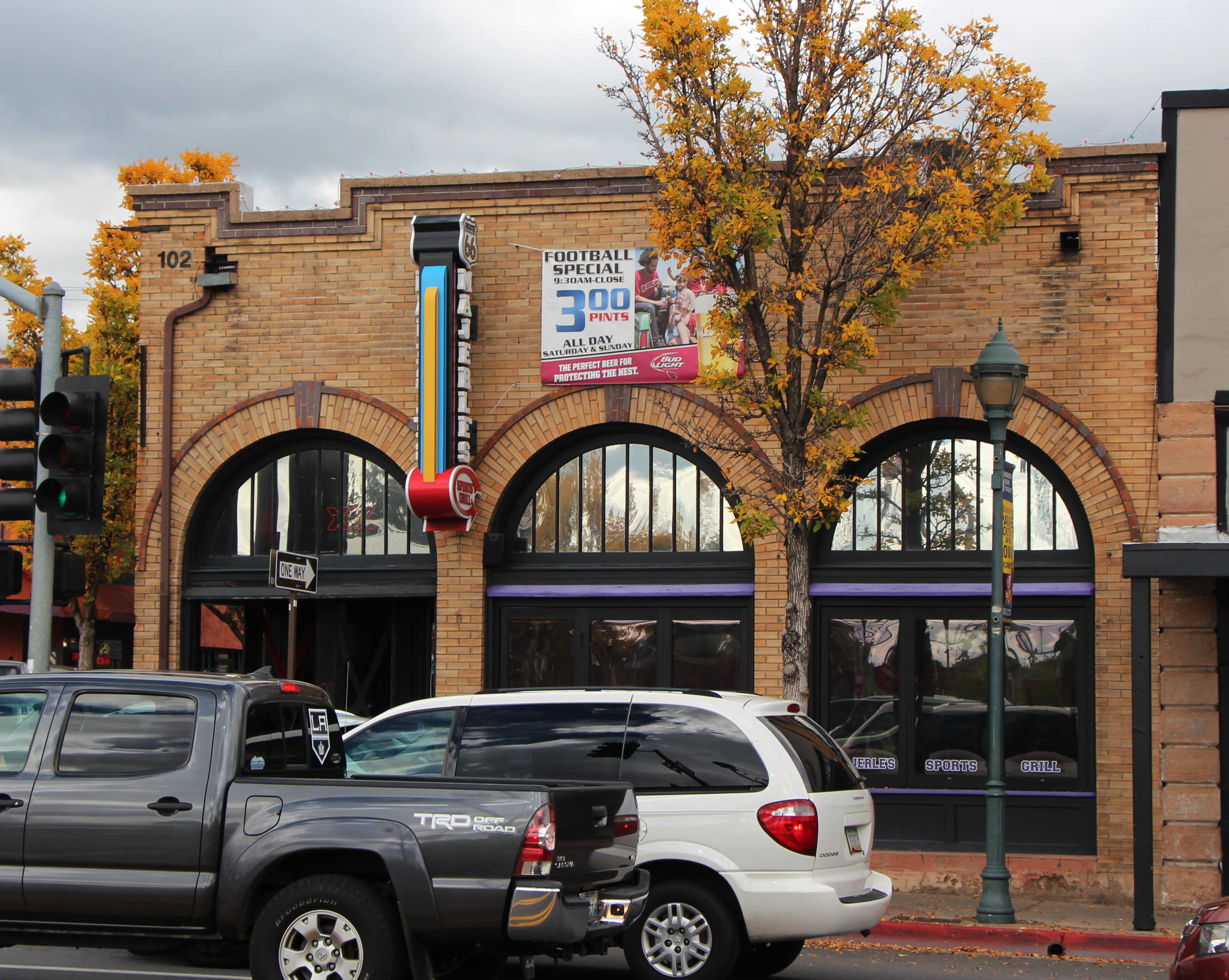 Brannen Building #5, 102 Route 66, Flagstaff, AZ